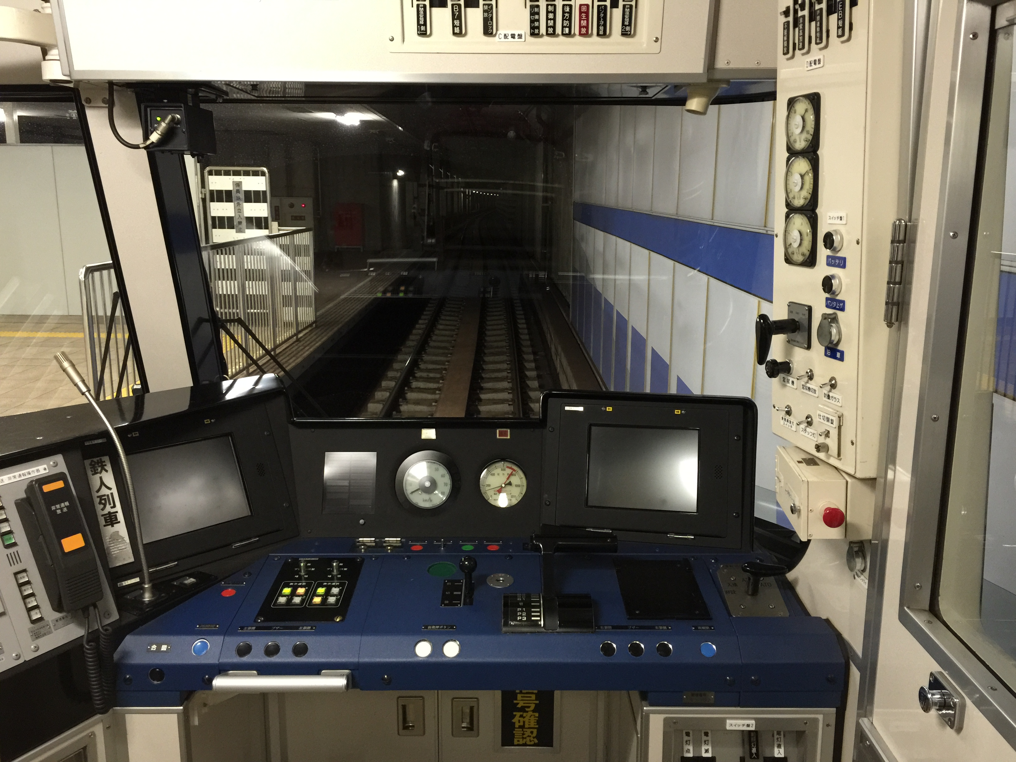 Driver's cabin, Kobe subway 5103